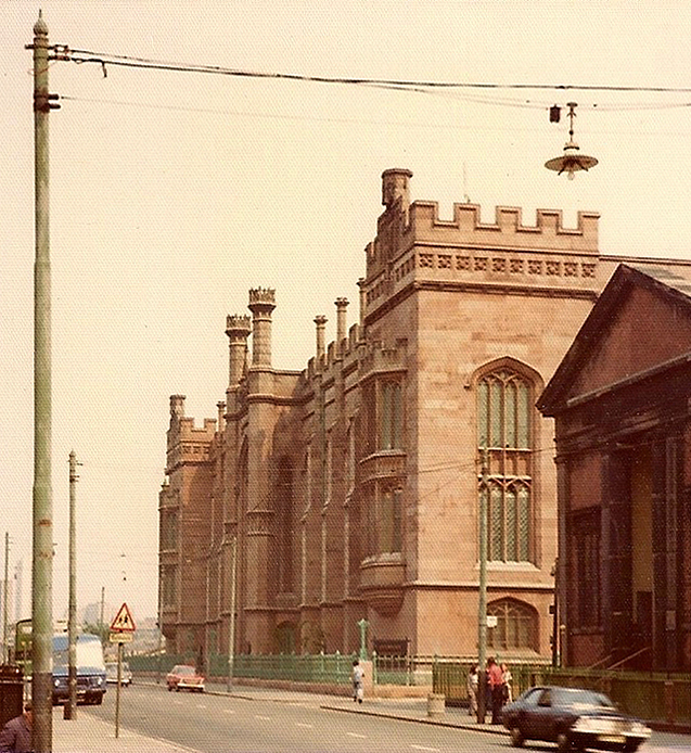 Liverpool Collegiate School in 1973 after the exterior of the building was cleaned. Original photograph by Len Horridge, permission granted - Creative Commons Attribution-ShareAlike 3.0. An email containing details of the permission for this image has been sent to wiki permissions.